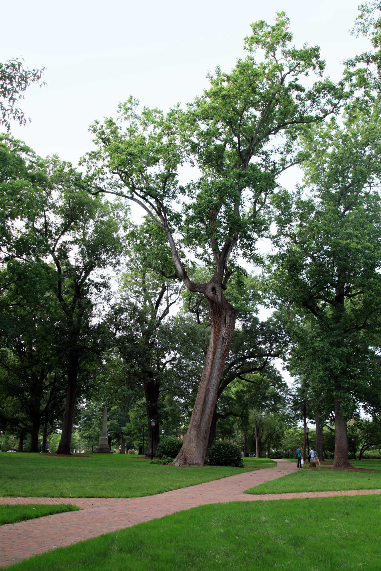 One of the Davie Poplars, a notable landmark of :Category:|McCorkle Place|McCorkle Place , on the University of North Carolina at Chapel Hill (UNC) campus.